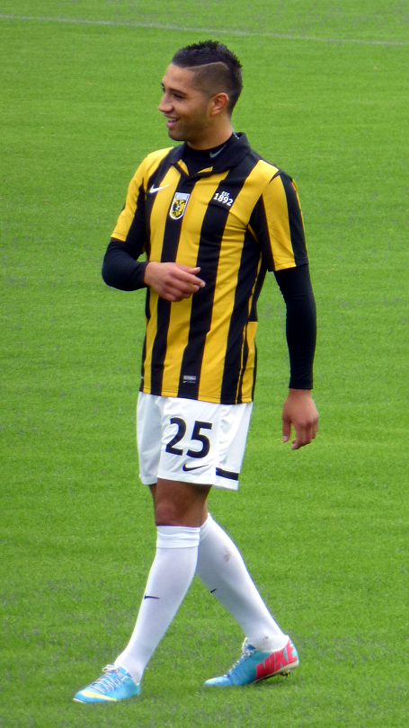 Adnane Tighadouini, player of Vitesse training at National Sports Centre Papendal